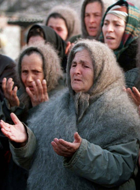 A group of women praying.